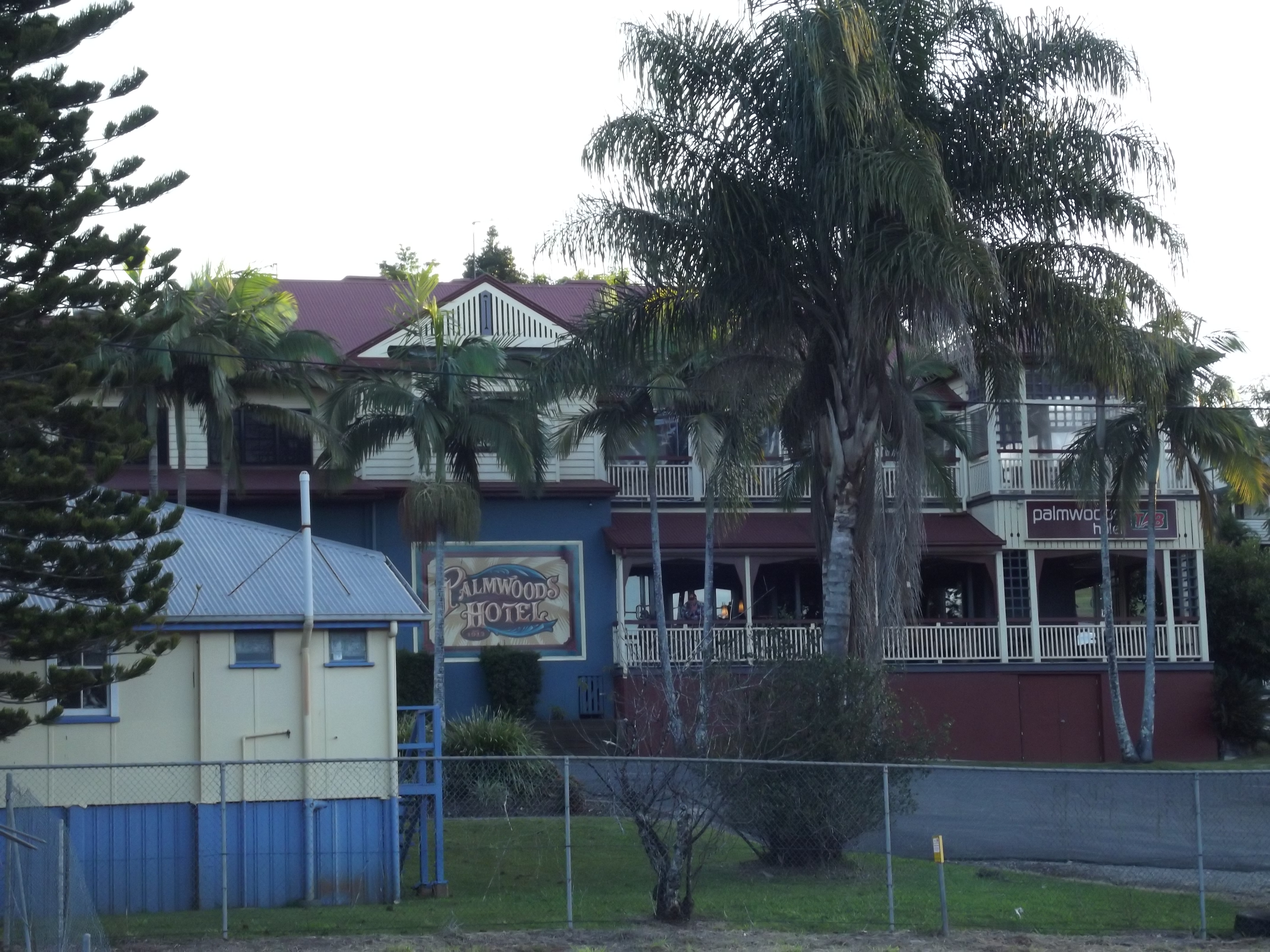 Hotel in Palmwoods, Queensland.